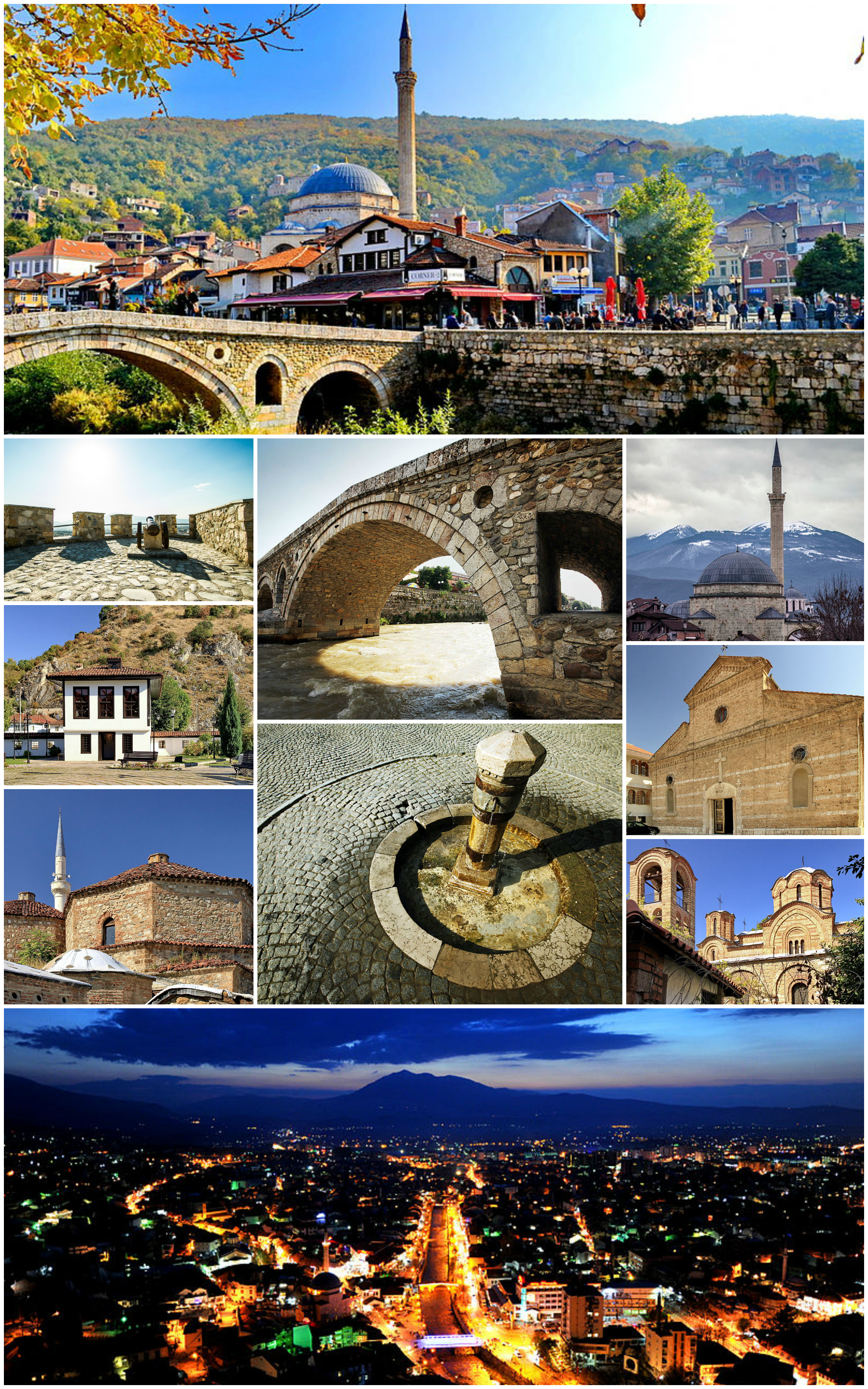 Collage of Prizren